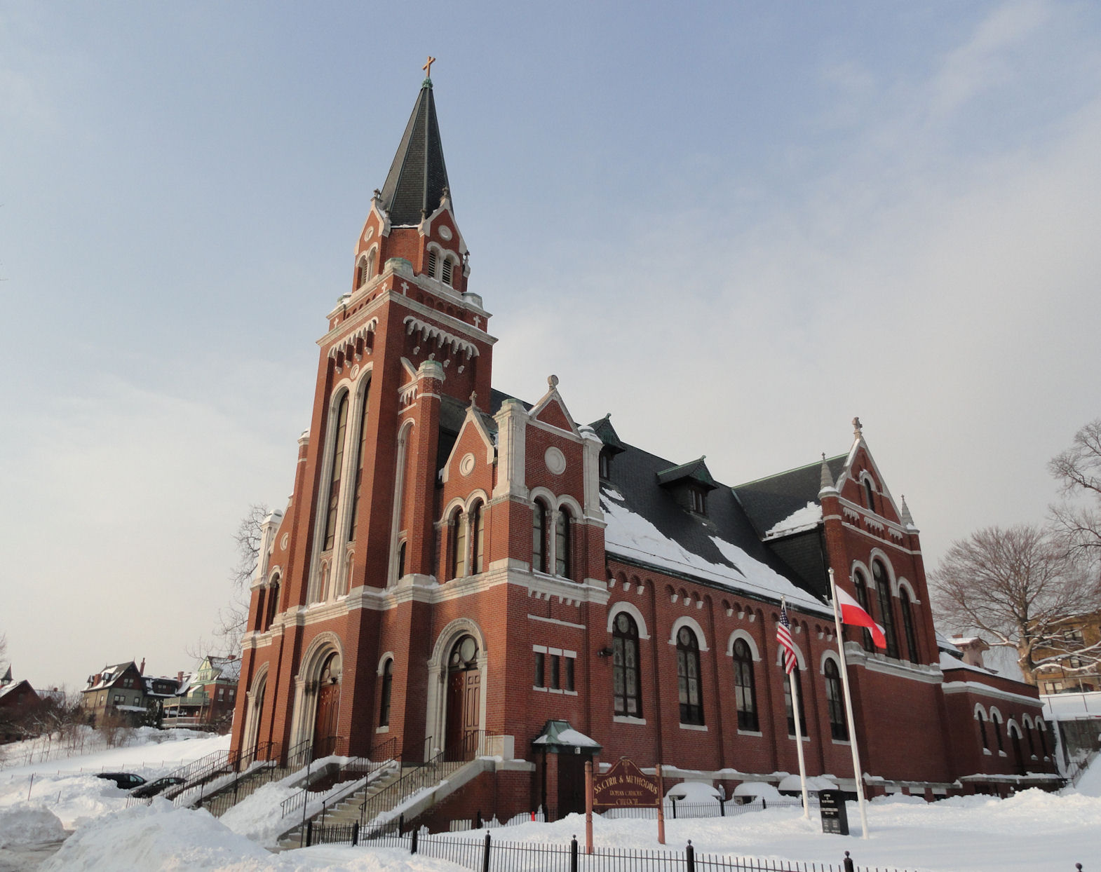 Sts. Cyril and Methodius Church, Hartford CT Chickering and O'Connell architects